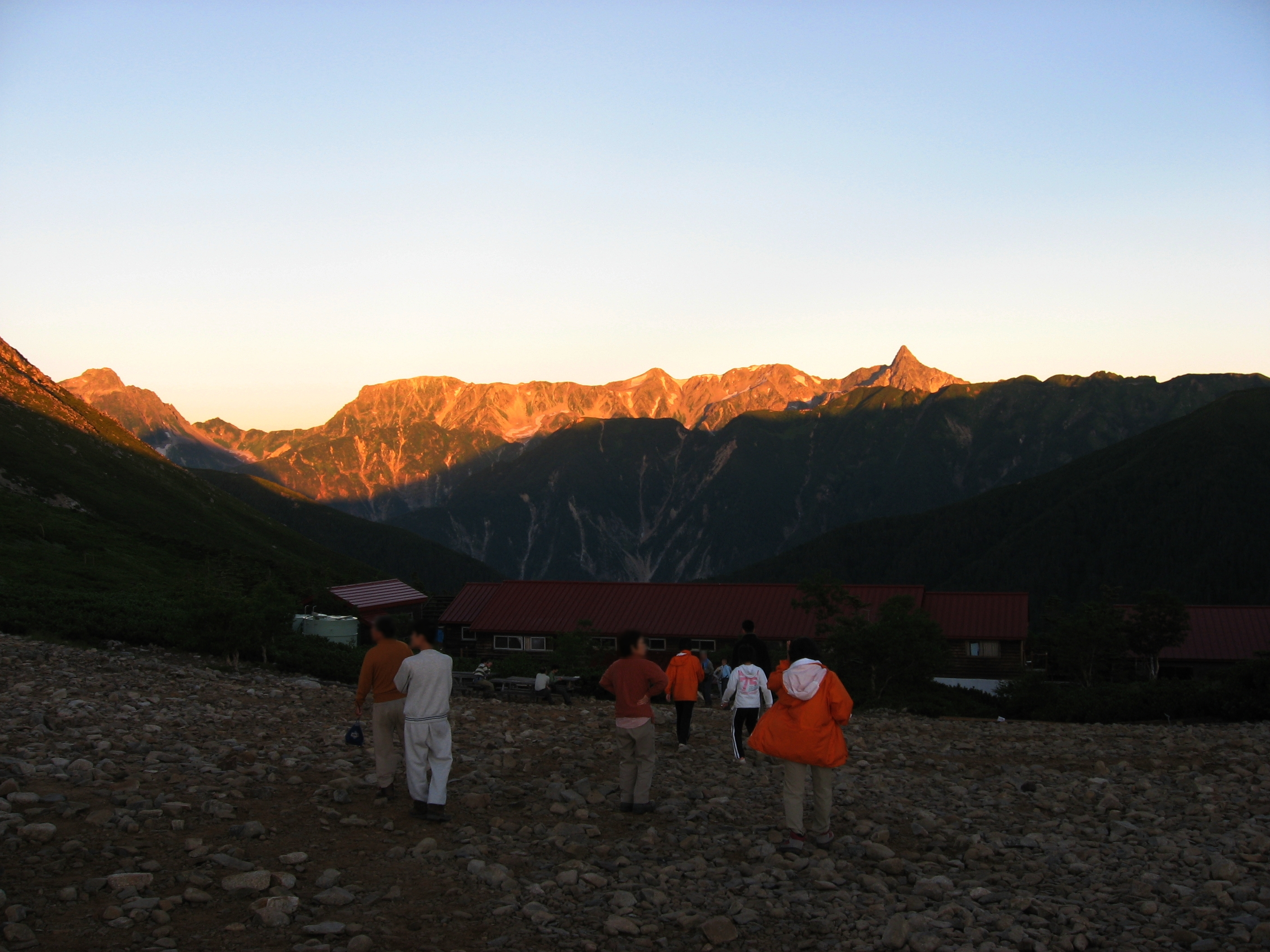 Jonengoya (Jonen Hut) and Mount Yari